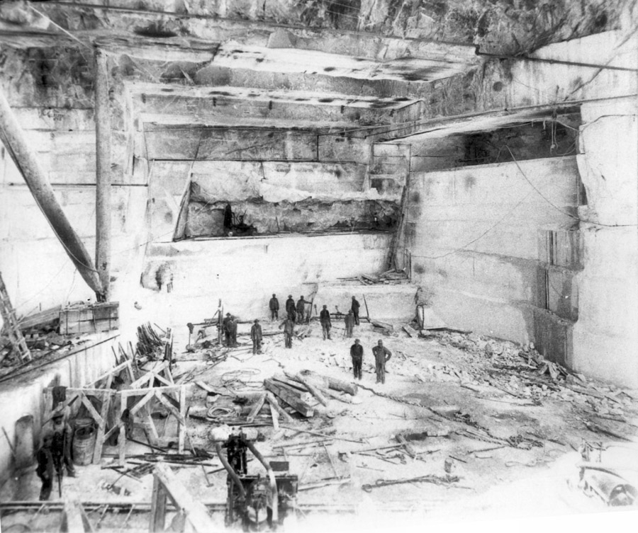 Interior before 1918 of the yule marble quarry operated by Colorado-Yule Marble Company